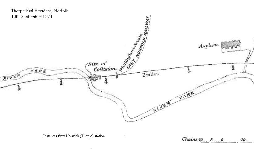 Site of Thorpe rail accident 1874